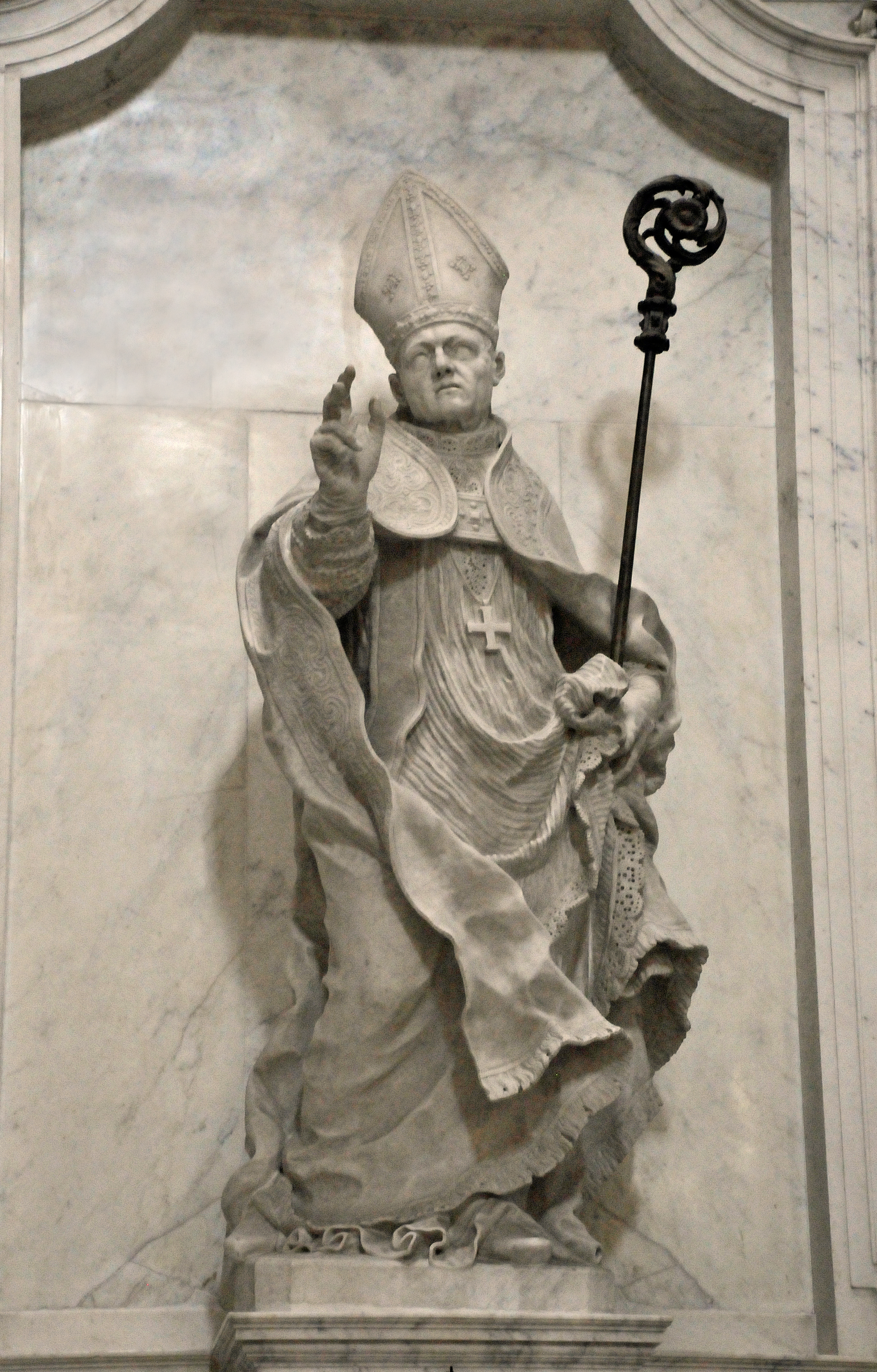 Beato Gherardo Sagredo in San Francesco dela Vigna a Venezia